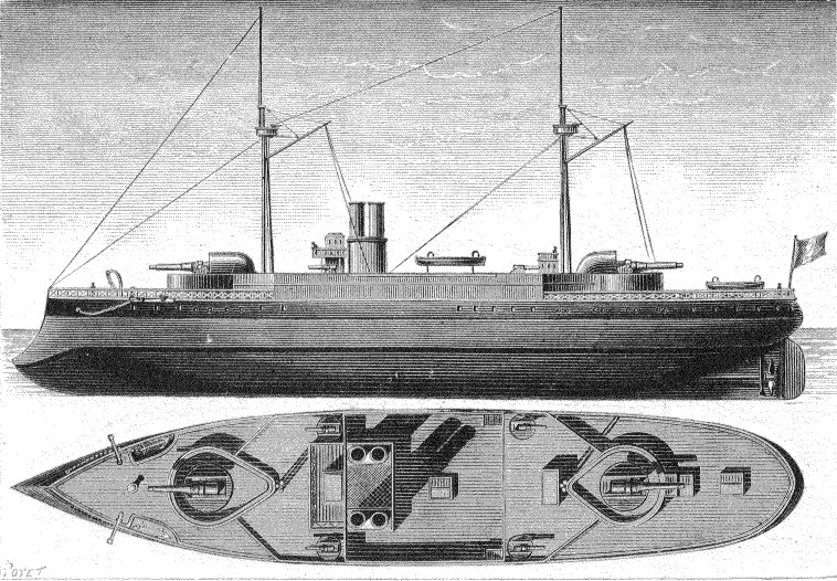 French armoured coast-guard Indomptable